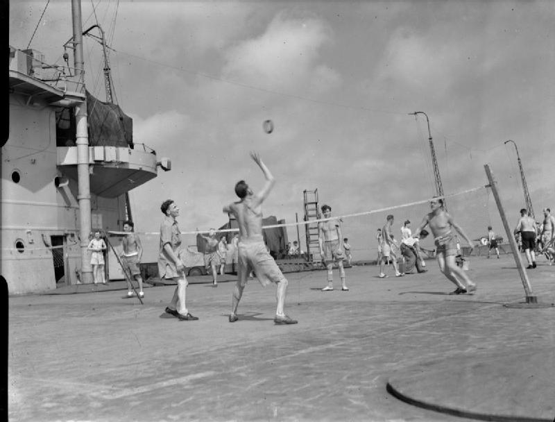 The Royal Navy during the Second World War The aircraft carrier HMS INDOMITABLE on the homeward journey from Sydney Harbour to the United Kingdom. On board were men of the British Pacific Fleet who were being demobilised, along with former prisoners of war and women internees from Japanese camps. The picture shows men playing deck tennis on board HMS INDOMITABLE, which was used as a huge sporting facility for the men on the journey back.